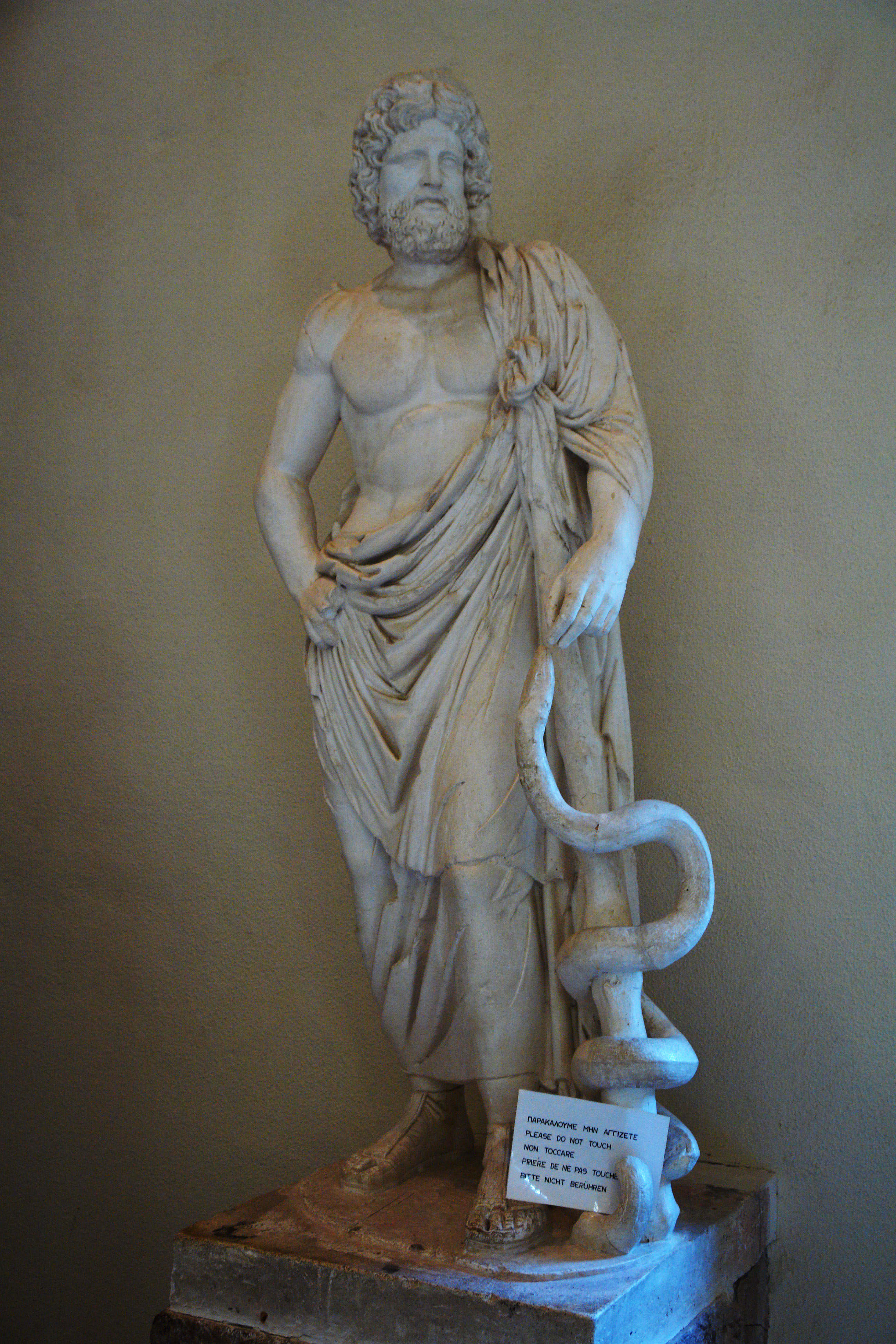 Statue of Asclepius, exhibited in the Museum of Epidaurus Theatre.